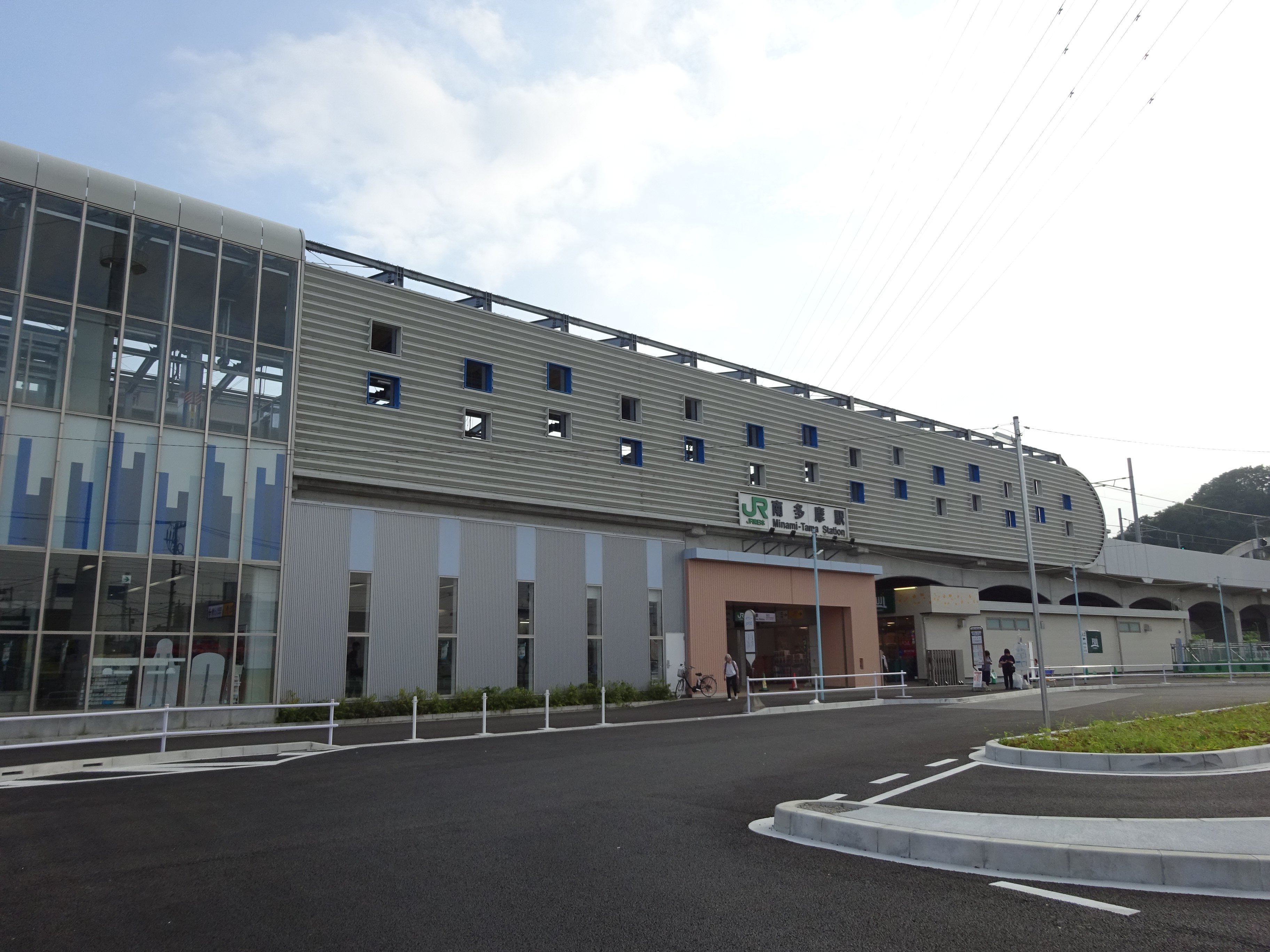 North Entrance of Minami-Tama Station